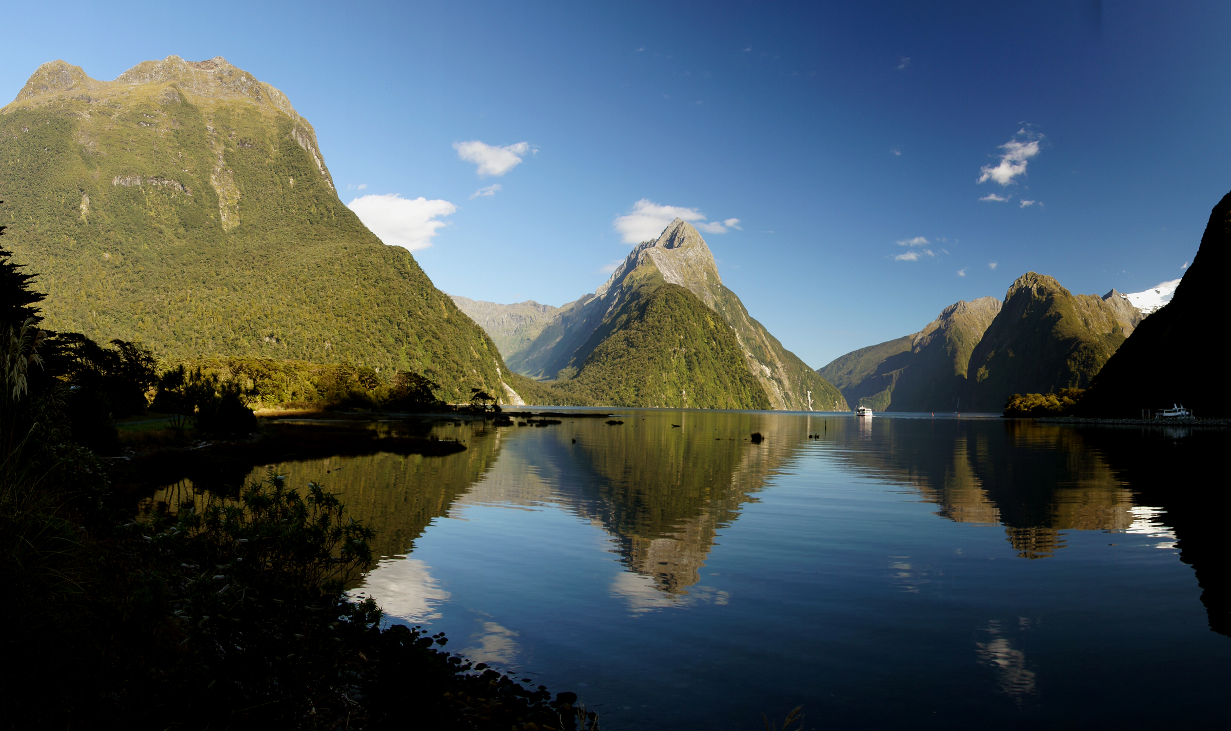 Milford Sound (Māori: Piopiotahi) is a fjord in the south west of New Zealand's South Island, within Fiordland National Park, Piopiotahi (Milford Sound) Marine Reserve, and the Te Wahipounamu World Heritage site. It has been judged the world's top travel destination in an international survey and is acclaimed as New Zealand's most famous tourist destination. Rudyard Kipling had previously called it the eighth Wonder of the World.